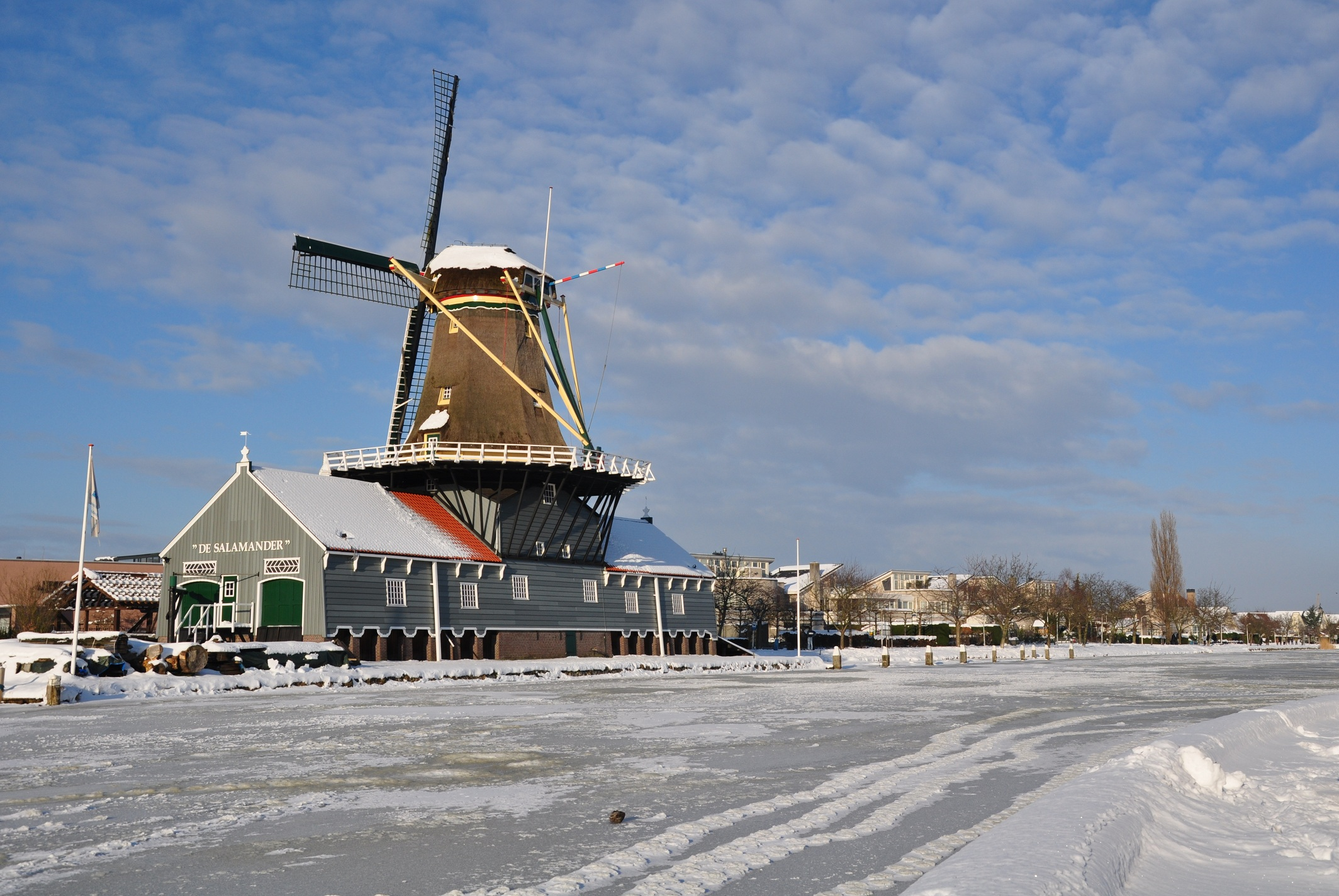 Sawmill "The Salamander" in Leidschendam on the -frozen- canal Vliet (Province of South Holland, Netherlands).